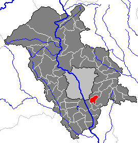 This map shows the area of the Gemeinde (municipality) Grambach in the Bezirk (district) Graz-Umgebung, Styria, Austria.